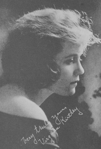 Photo of silent screen actress Virginia Kirtley